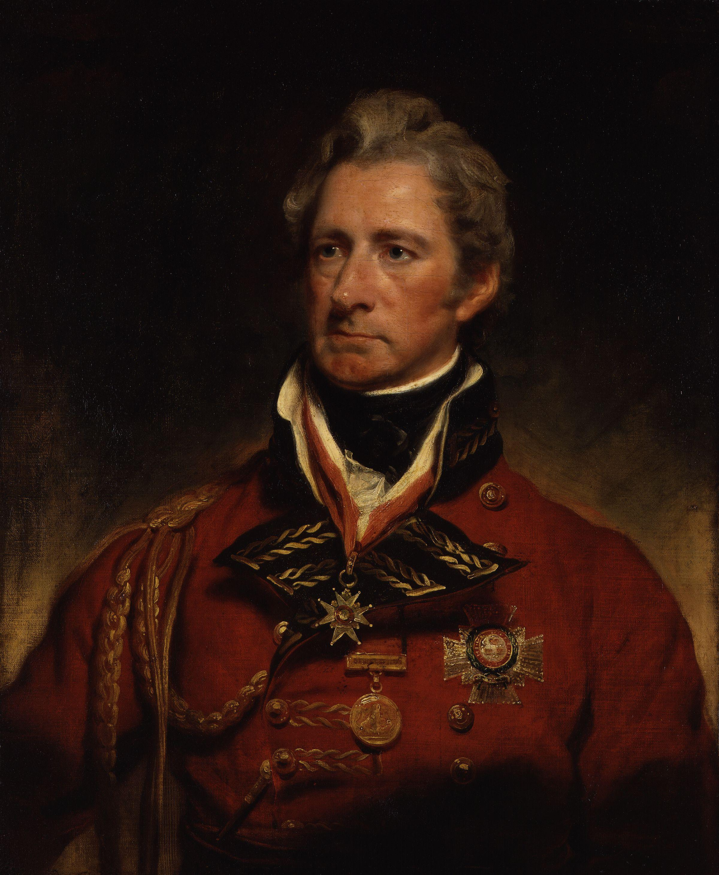 Sir Thomas Munro, 1st Bt, by Sir Martin Archer Shee (died 1850). All images in this batch have been confirmed as author died before 1939 according to the official death date listed by the NPG.